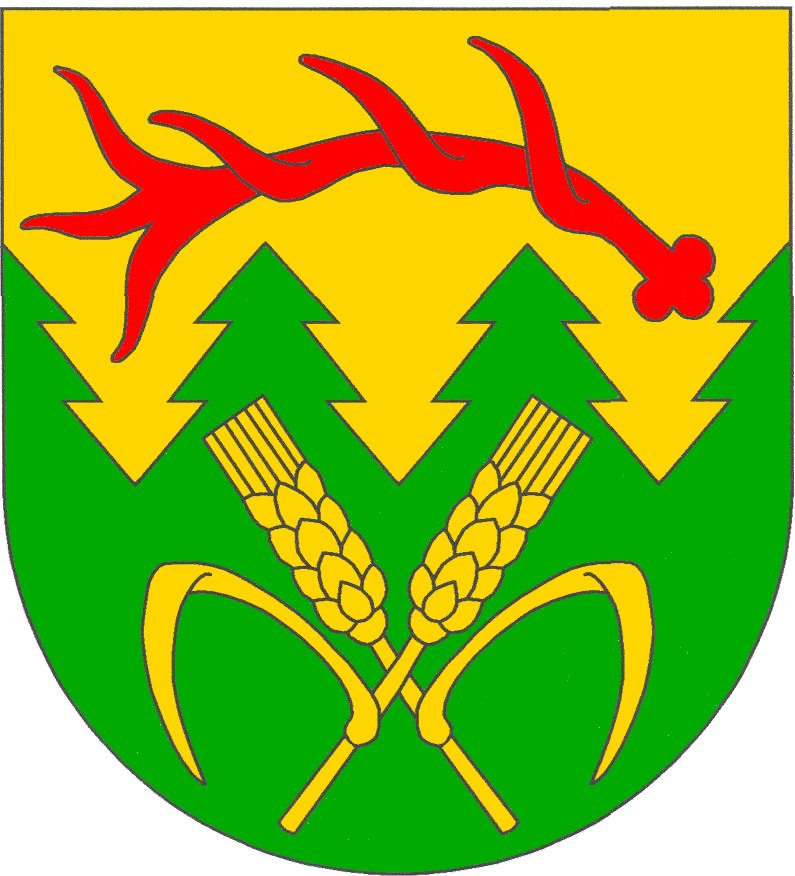 Municipal coat of arms of Krásný Les village, Liberec District, Czech Republic.